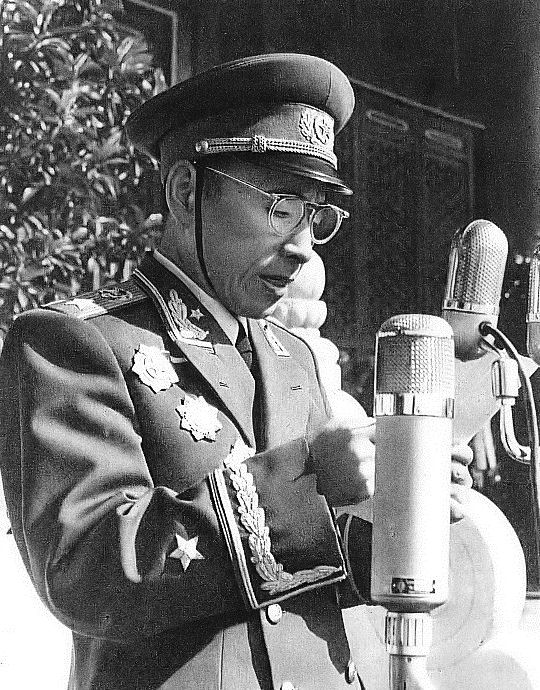 Lin Biao in 1959